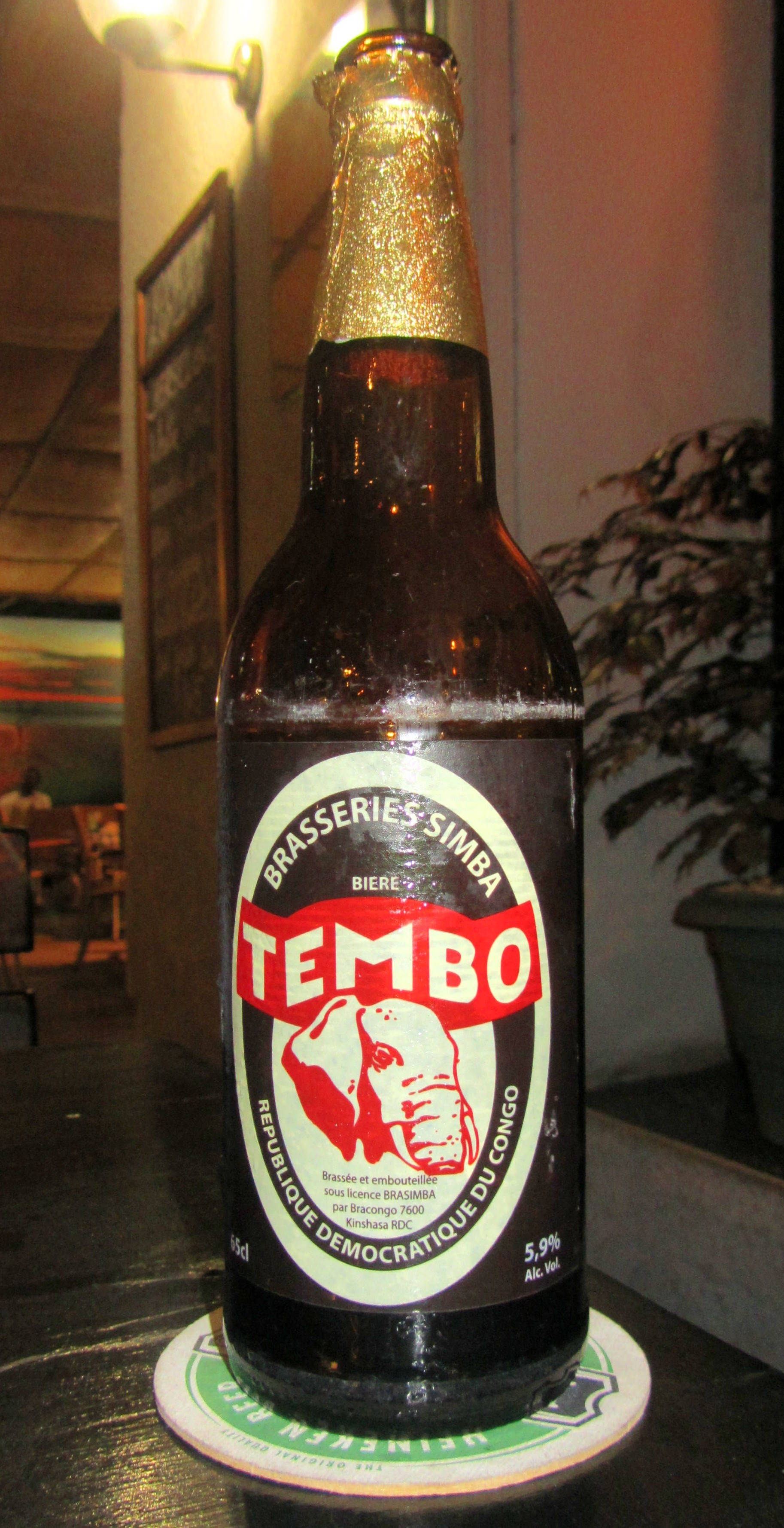 Tembo beer, beer from Democratic Republic of the Congo